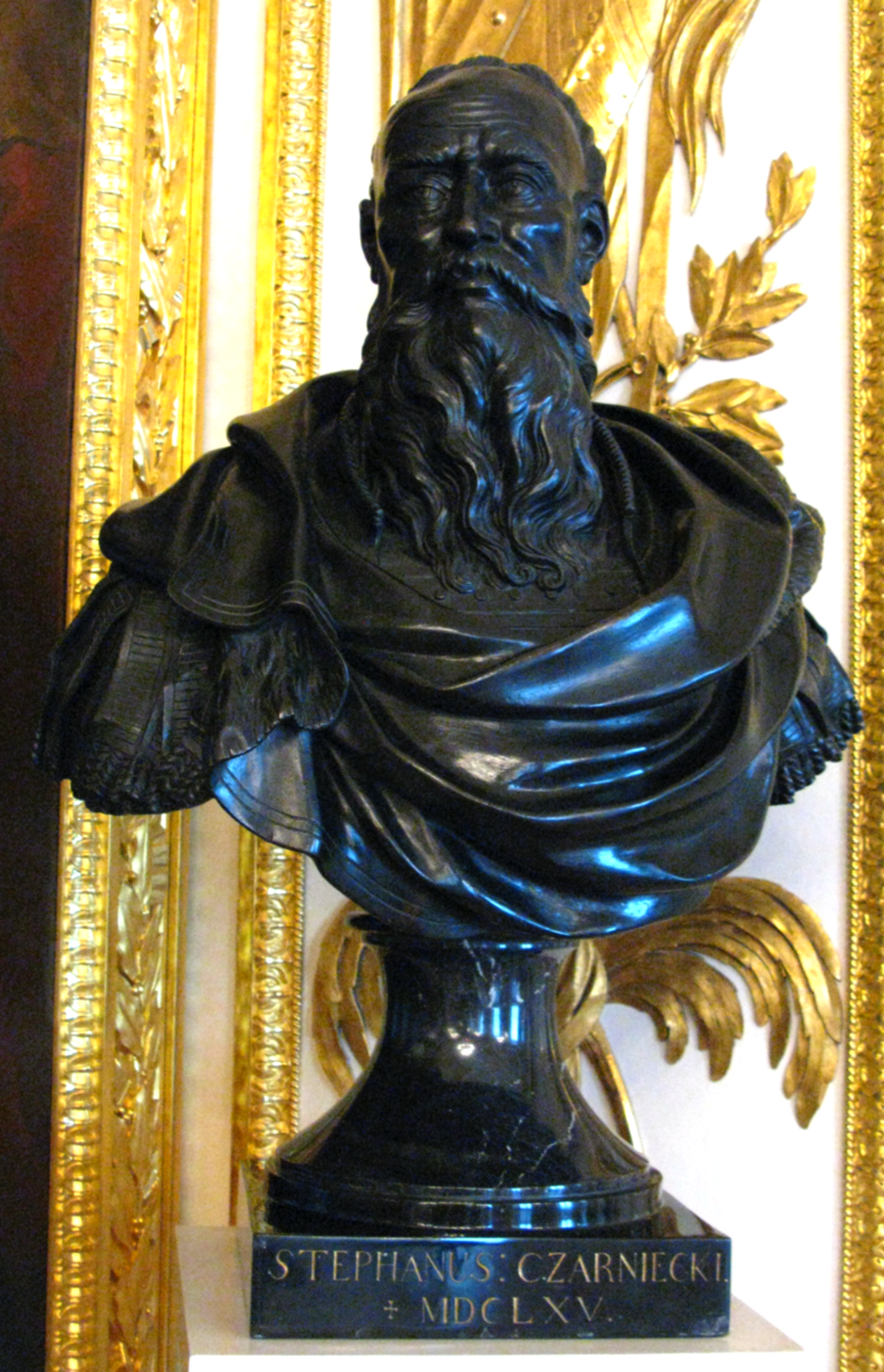 Buste of Stefan Czarniecki by André Le Brun in Warsaw Royal Castle